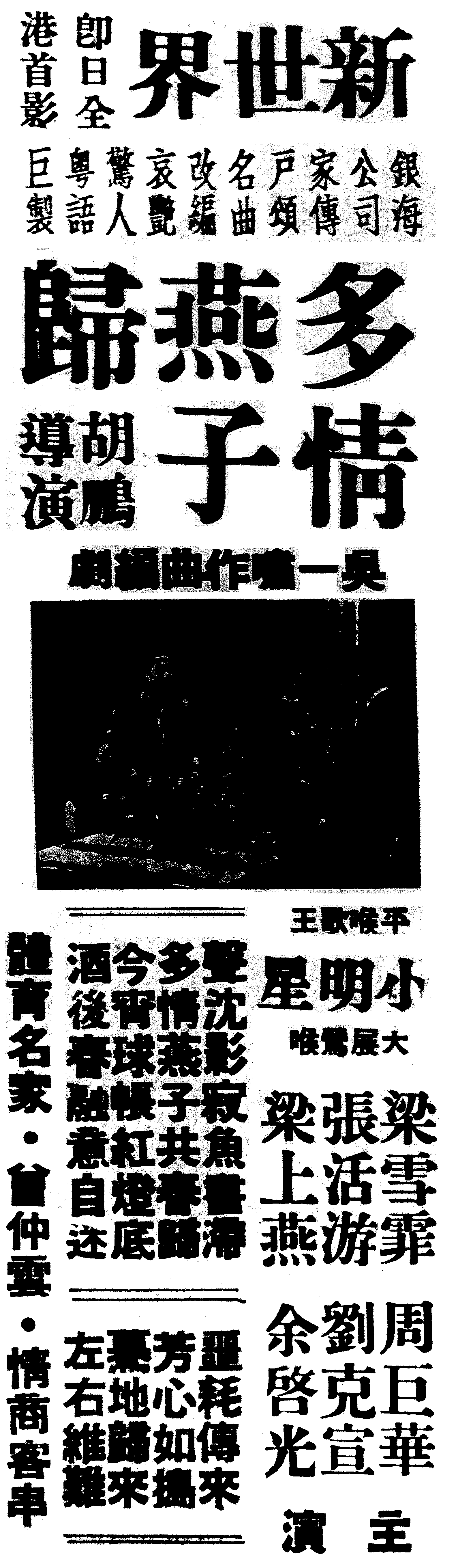 Advertisement of Hong Kong Cantonese Film “The sentimental swallow returns” (1941) 中文（香港）: 香港粵語片《多情燕子歸》（1941年）的宣傳廣告